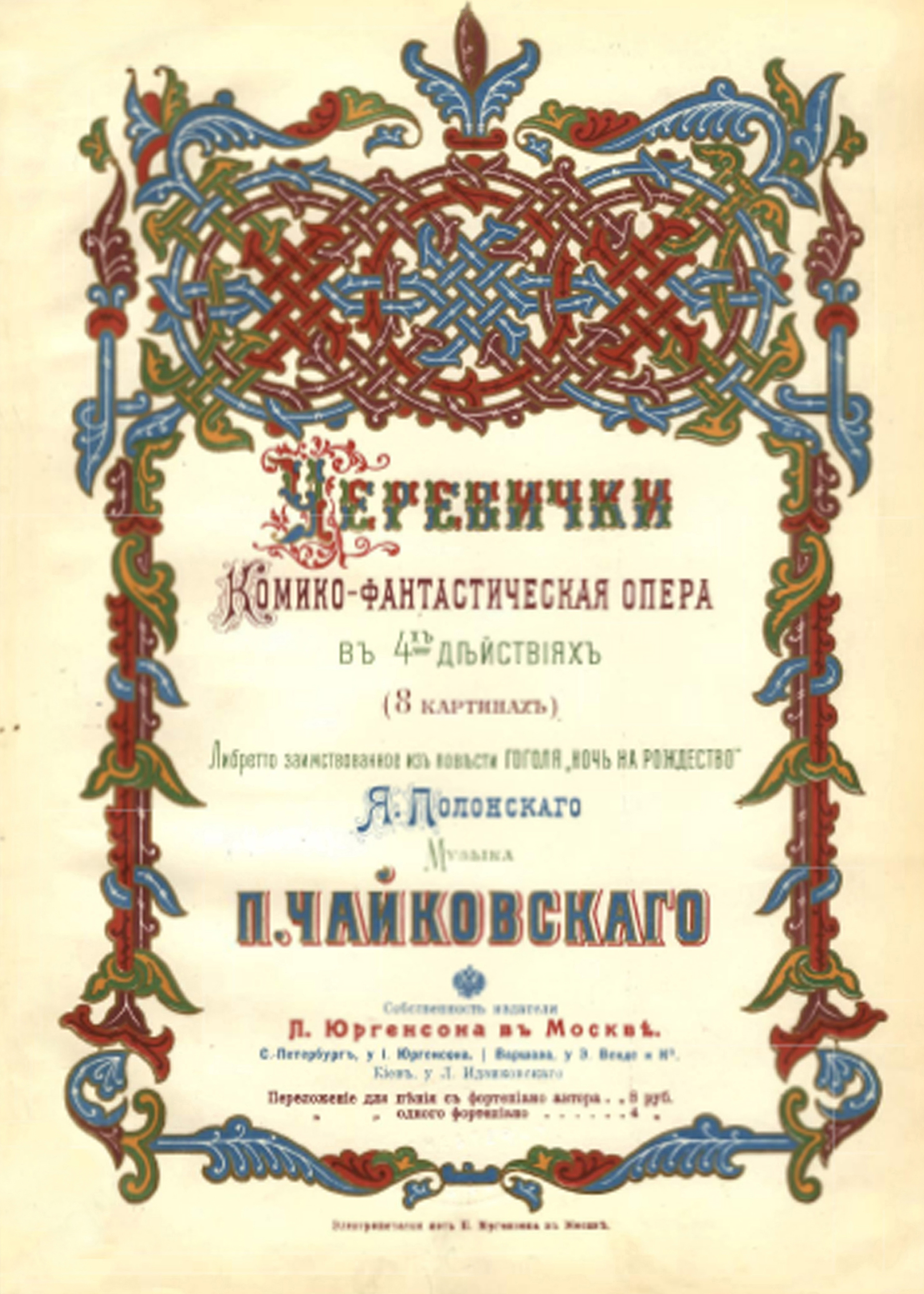 Cover of the 1901 edition of the vocal score of Pyotr Ilich Tchaikovsky's opera Cherevichki.